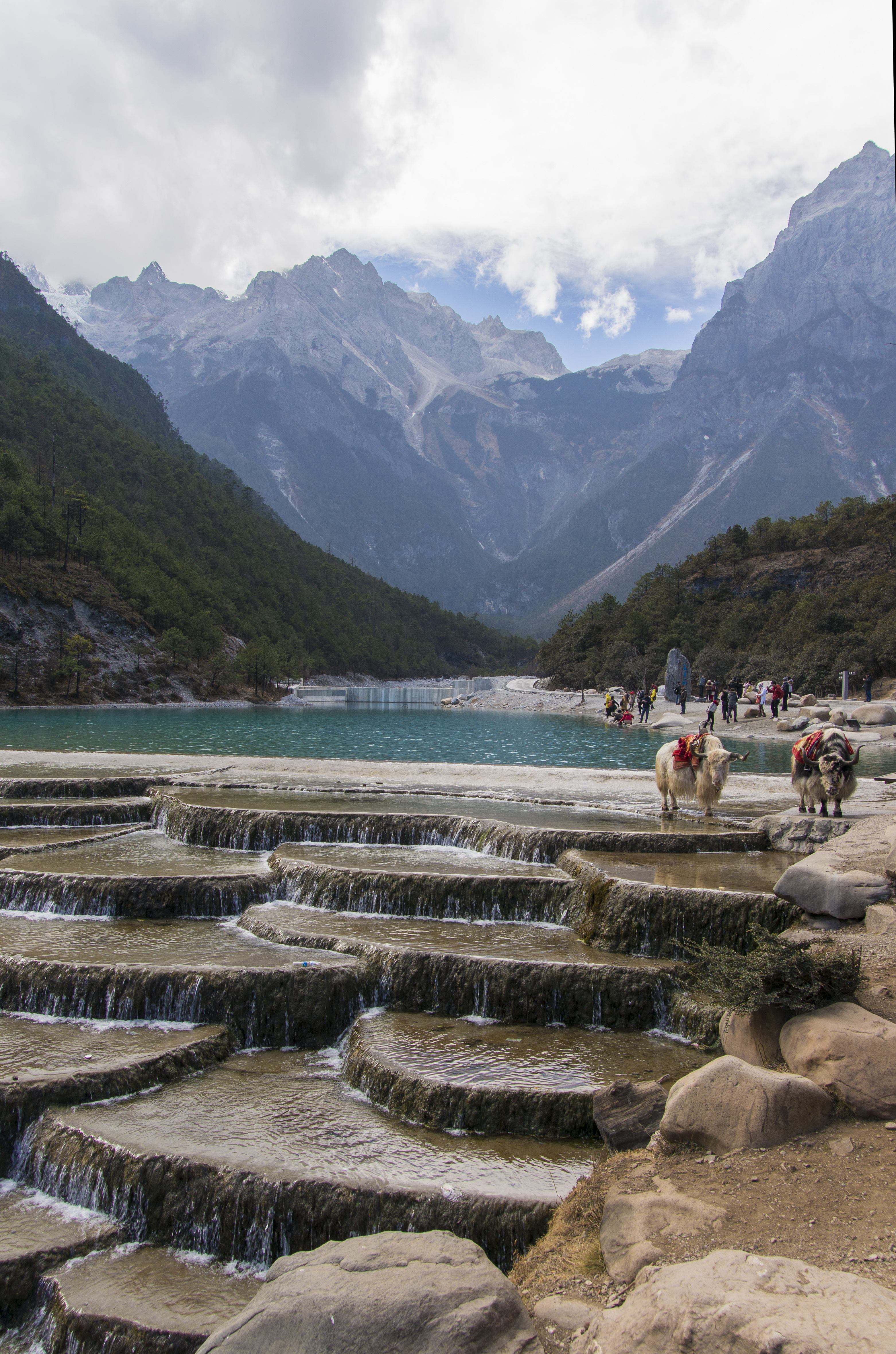 yak cascading pool white water river lijiang yulong xueshan jade dragon snow mountain yunnan china 2012